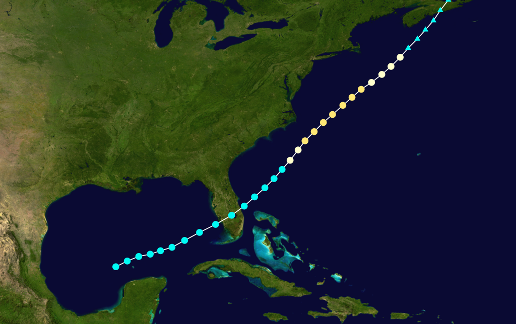 1896 Atlantic hurricane 5 track. Uses the color scheme from the Saffir-Simpson Hurricane Scale.